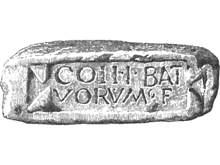 Building inscription of the First Cohort of Batavians, found before 1774 in Carvoran (Magnis) Hadrians wall.